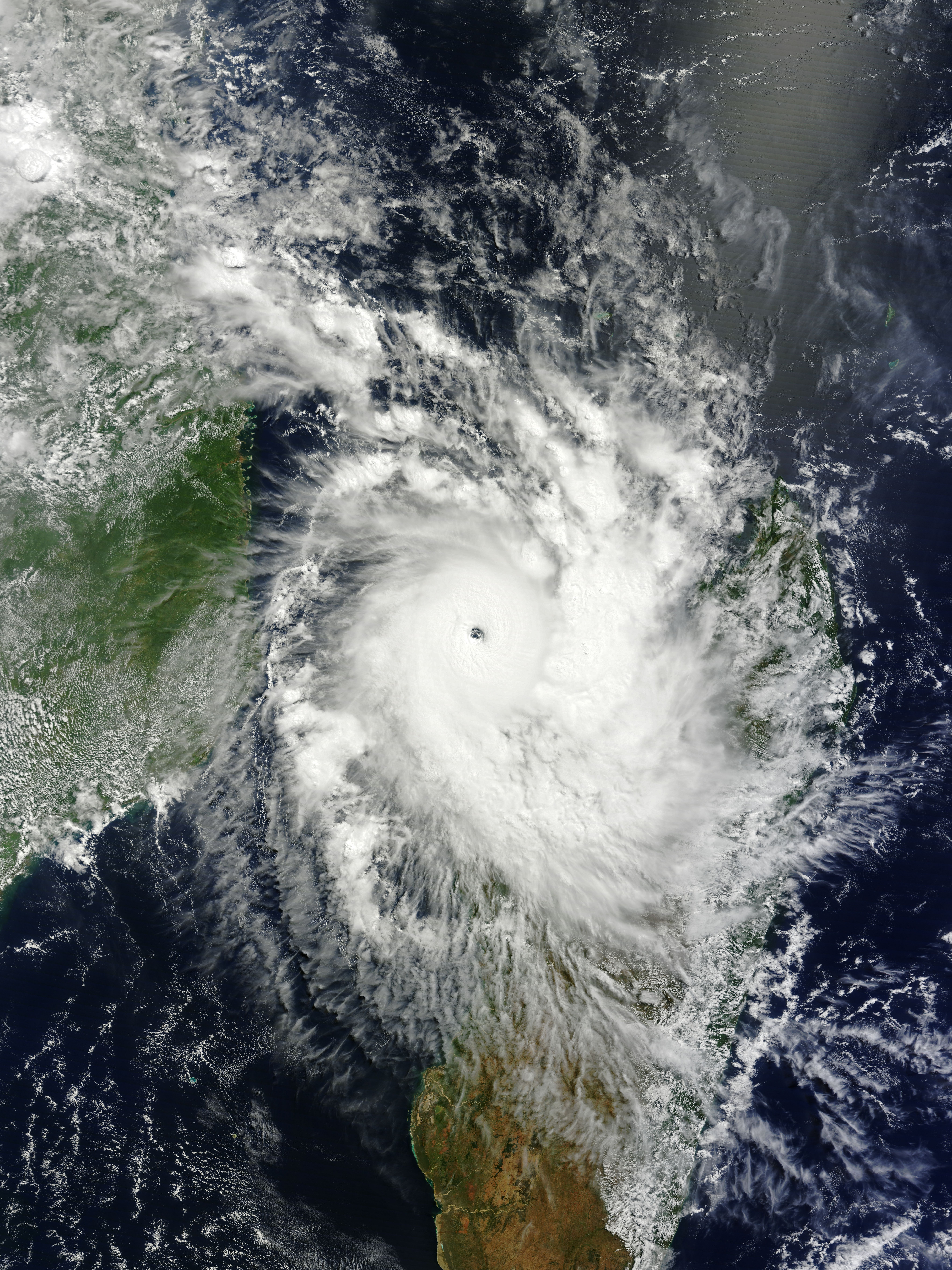 Intense Tropical Cyclone Hellen rapidly intensifying over the Mozambique Channel on 30 March 2014, shortly before becoming a very intense tropical cyclone.